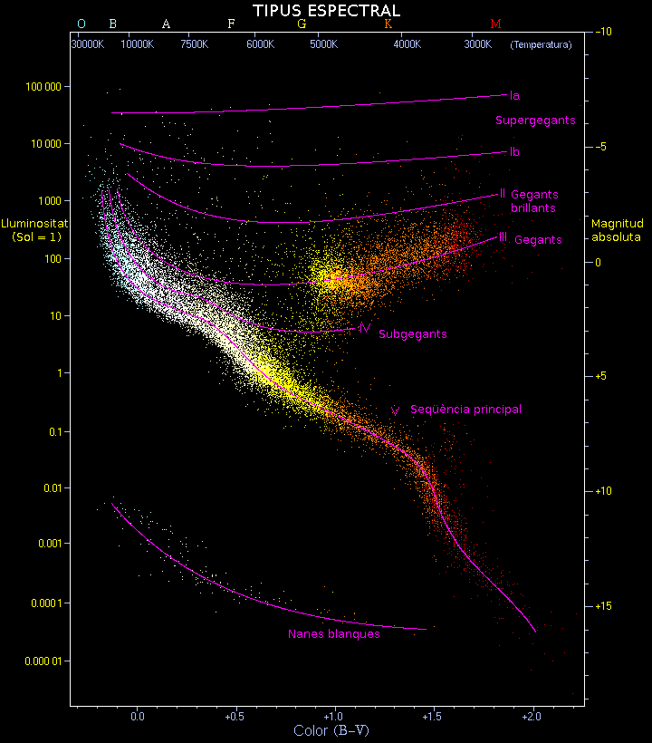 Hertzsprung-Russell diagram. A plot of luminosity (absolute magnitude) against the colour of the stars ranging from the high-temperature blue-white stars on the left side of the diagram to the low temperature red stars on the right side. "This diagram below is a plot of 22000 stars from the Hipparcos Catalogue together with 1000 low-luminosity stars (red and white dwarfs) from the Gliese Catalogue of Nearby Stars. The ordinary hydrogen-burning dwarf stars like the Sun are found in a band running from top-left to bottom-right called the Main Sequence. Giant stars form their own clump on the upper-right side of the diagram. Above them lie the much rarer bright giants and supergiants. At the lower-left is the band of white dwarfs - these are the dead cores of old stars which have no internal energy source and over billions of years slowly cool down towards the bottom-right of the diagram." Converted to png and compressed with pngcrush.